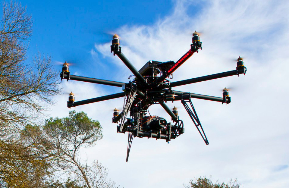 Photo of CineCopter II drone